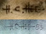 Signatures of the painter Hon Chew Hee